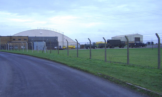 Hangar at RAF Lyneham Seen from the Bradenstoke village road.